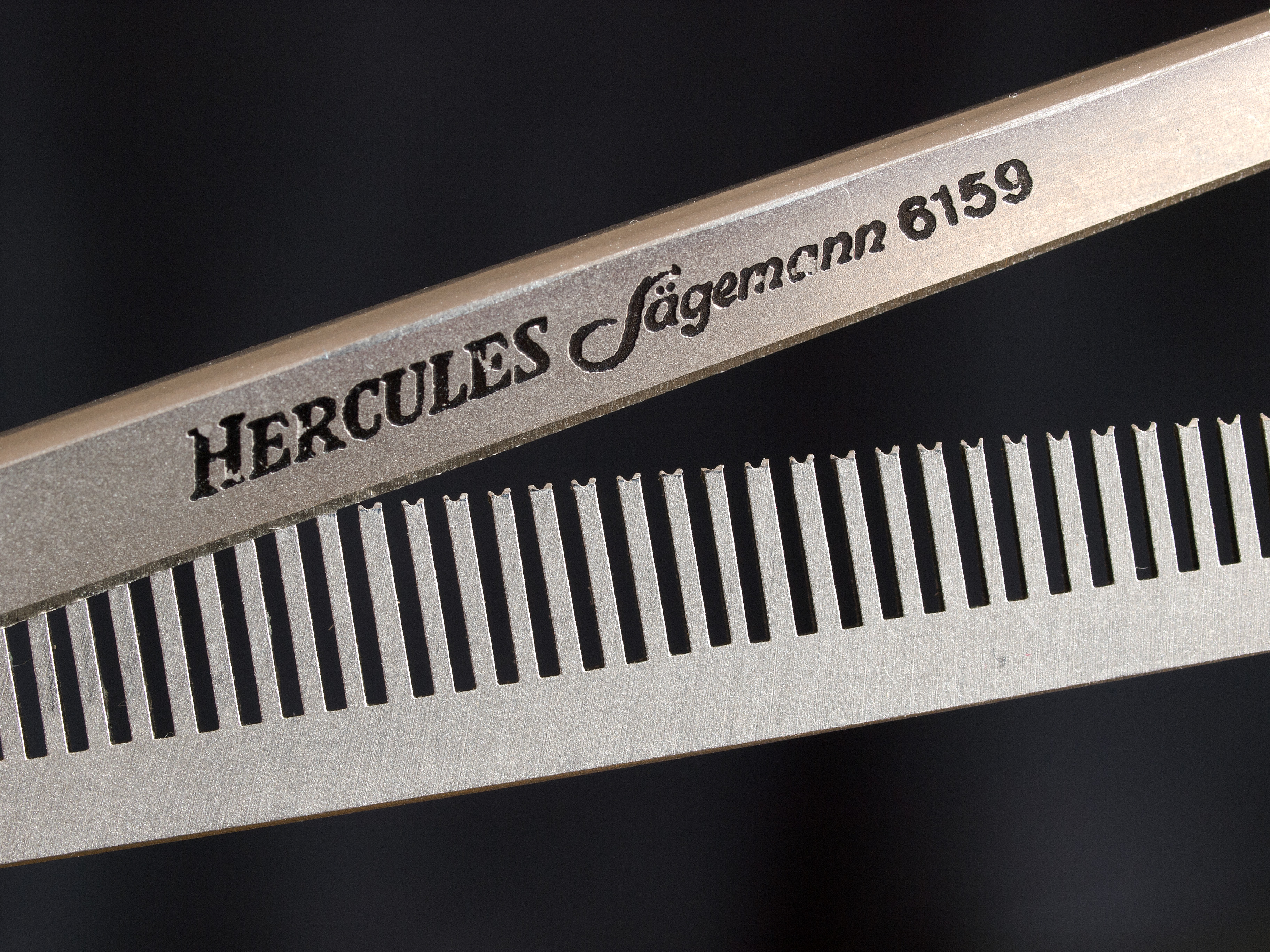 Hair scissor for thinning hair